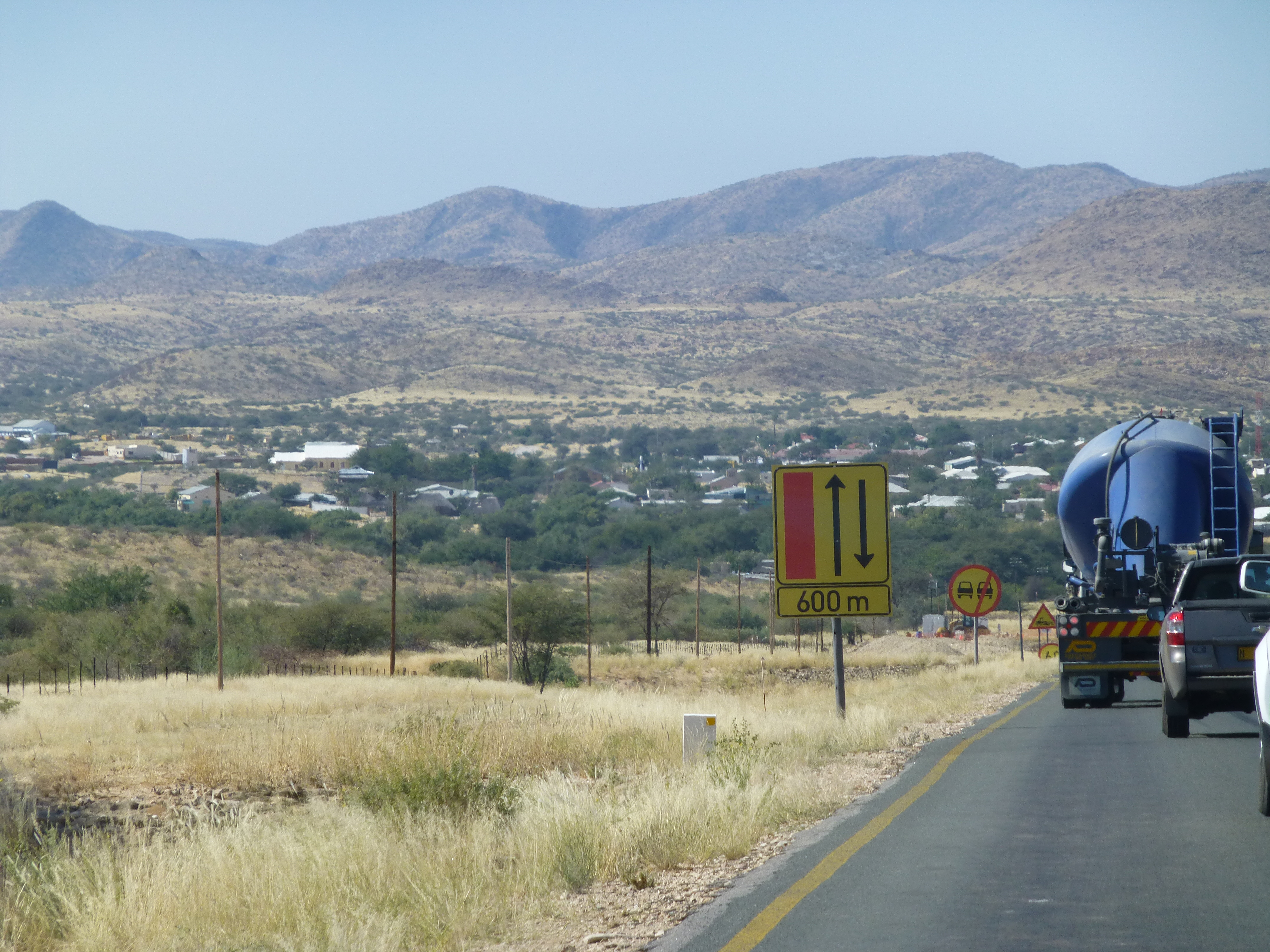 B2 Namibia at Arandis